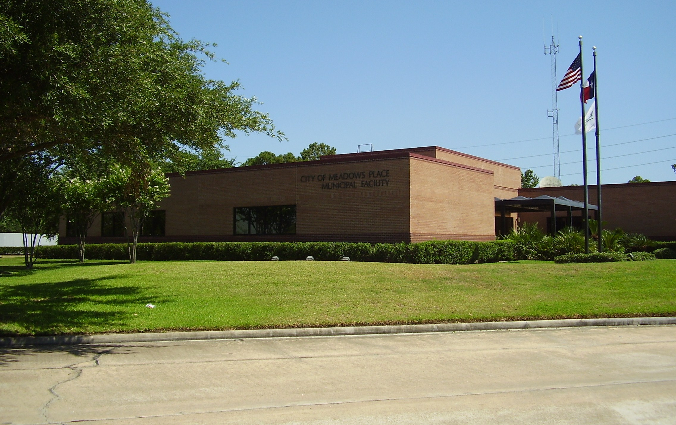 Municipal facility of Meadows Place, Texas